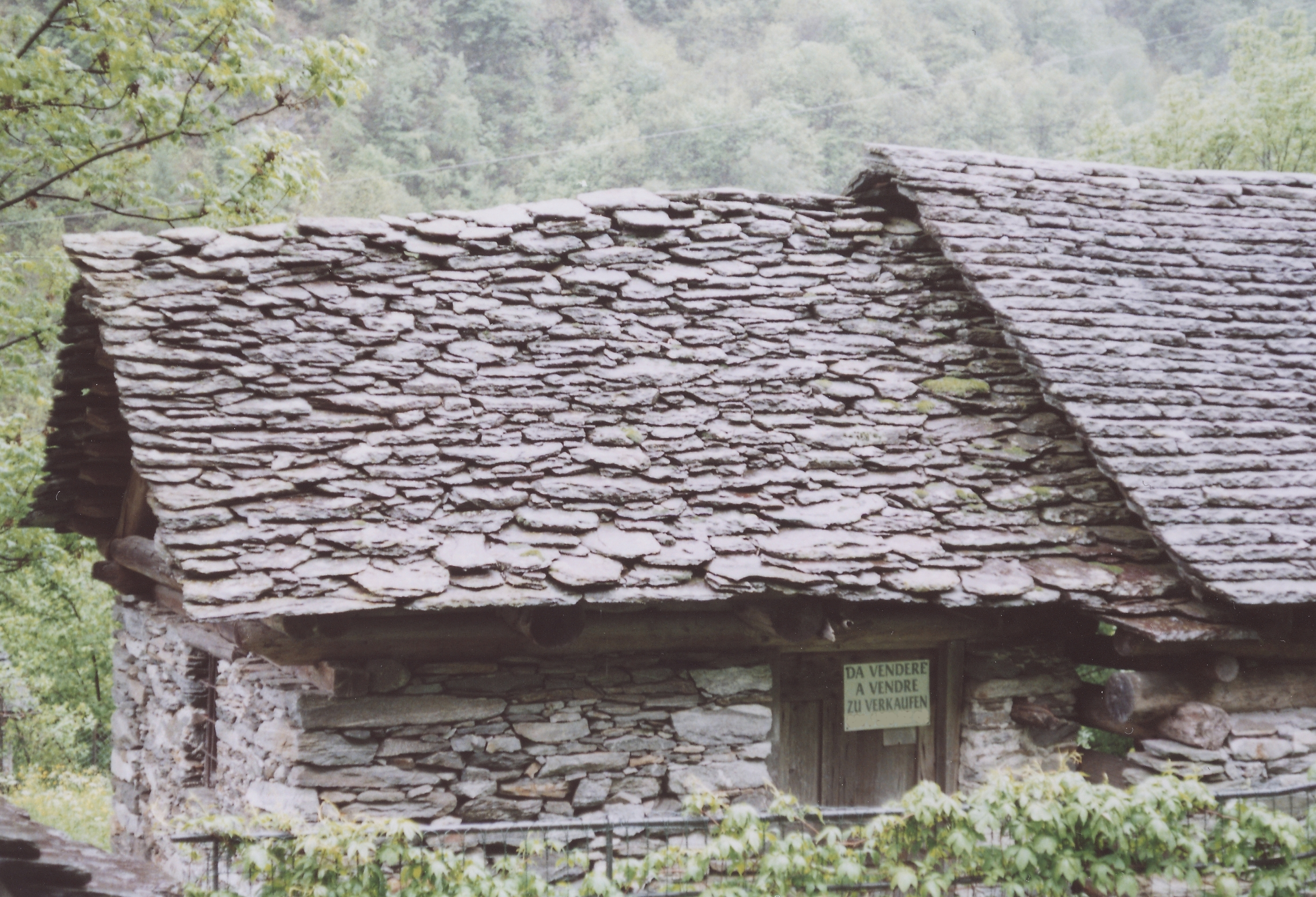 Roof with gneiss (Valle Lavizzara, Canton Ticino, Switzerland)